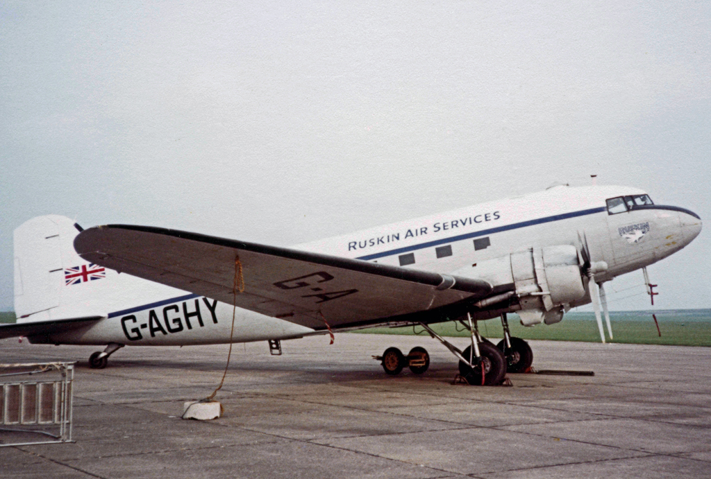 Douglas C-47A (DC-3) G-AGHY (G-DAKS) painted in fictional 'Ruskin Air Services' markings at Duxford in 1982